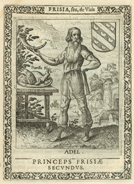 Prince Adel (later King Adel II of Friesland), son of Friso.